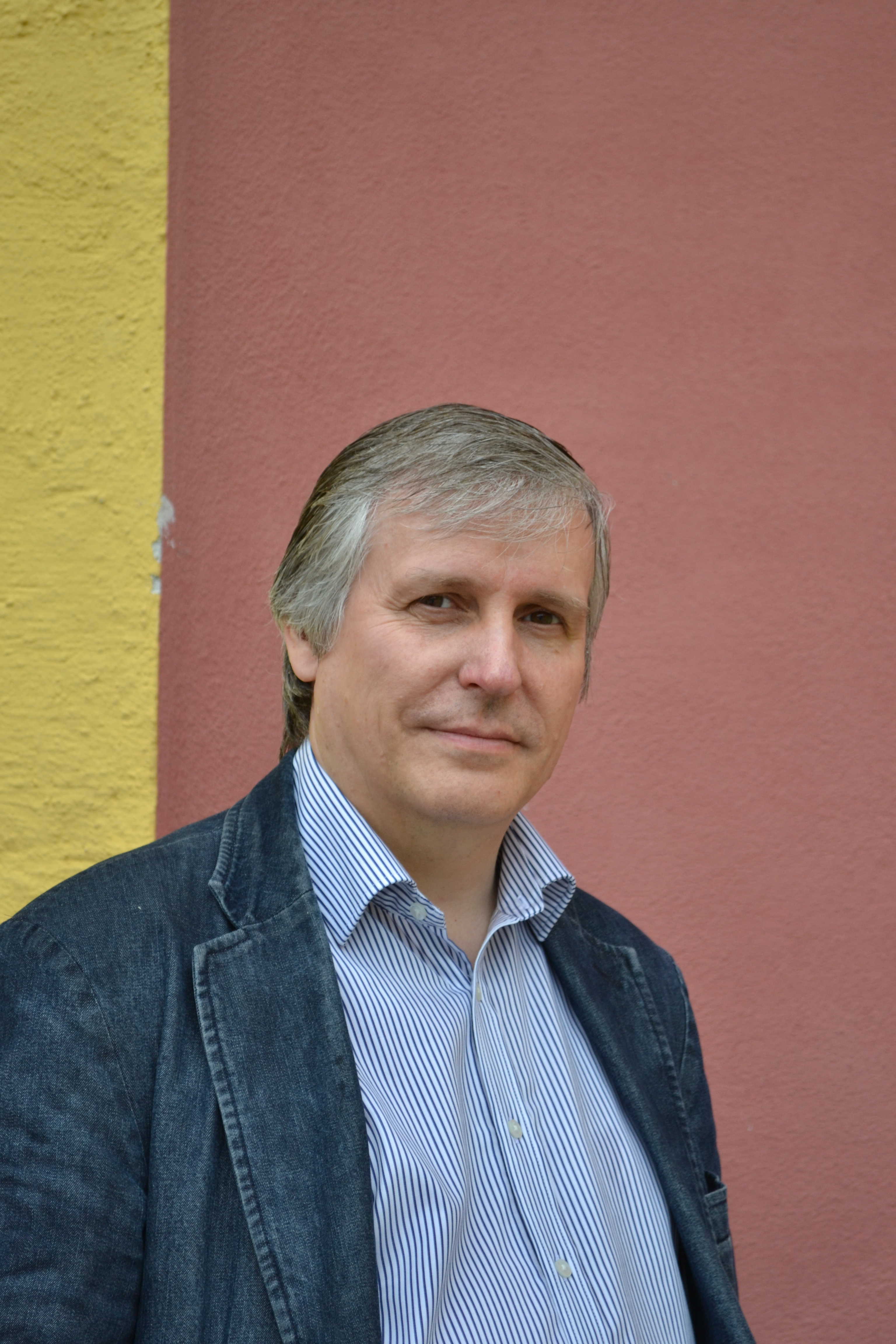 Photograph of game developer Richard Bartle